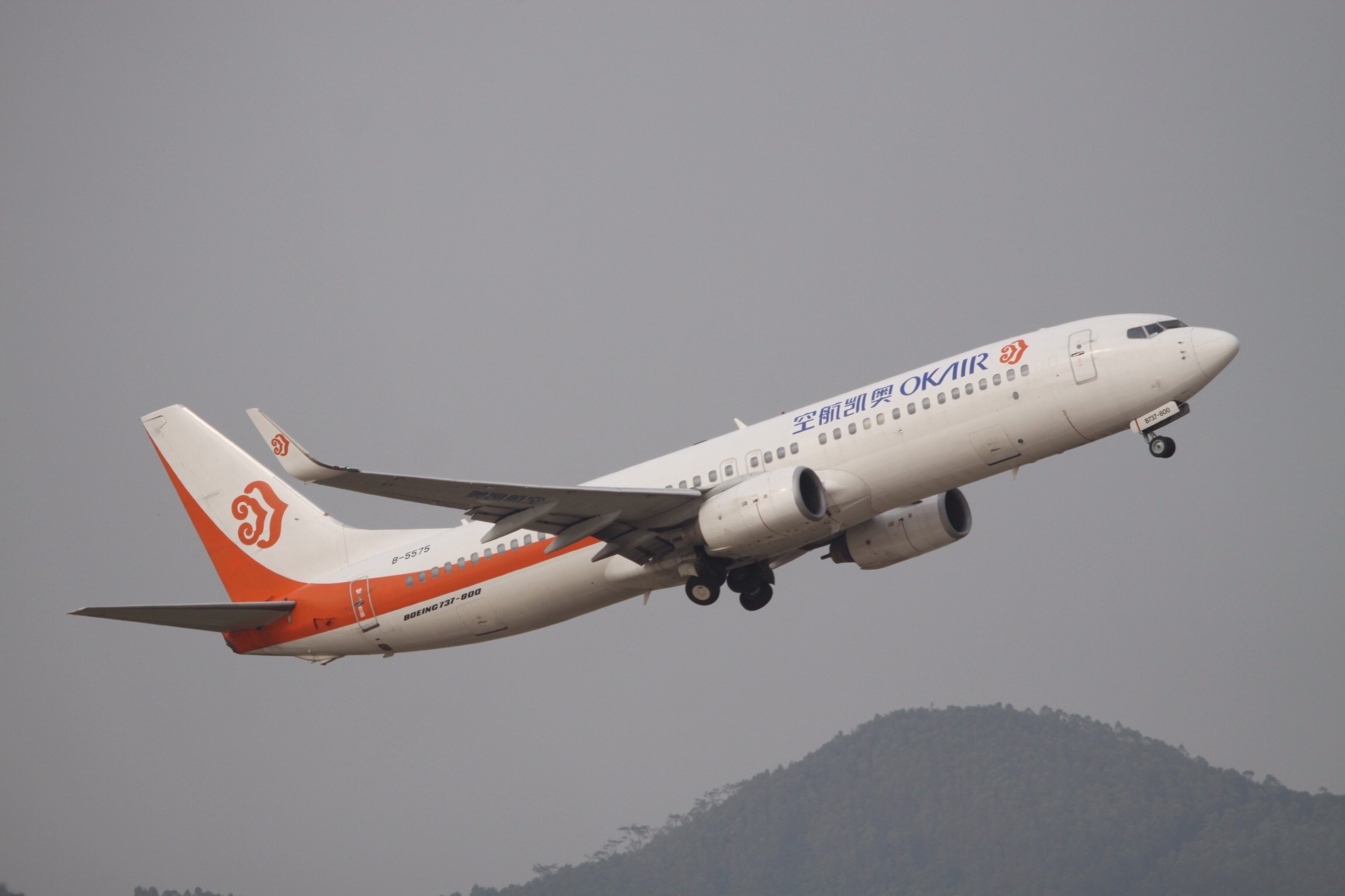 At Shenzhen Bao'an International Airport